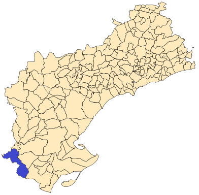 La Sénia